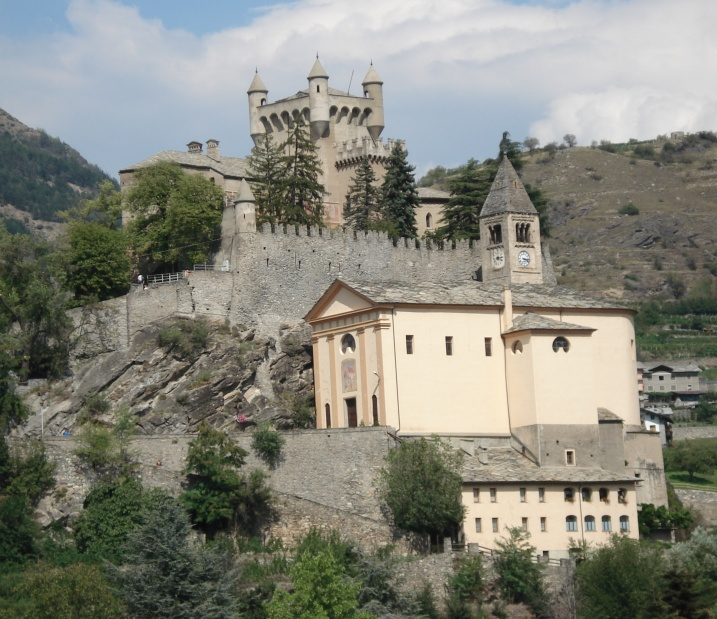 St Pierre castle in Aosta Valley